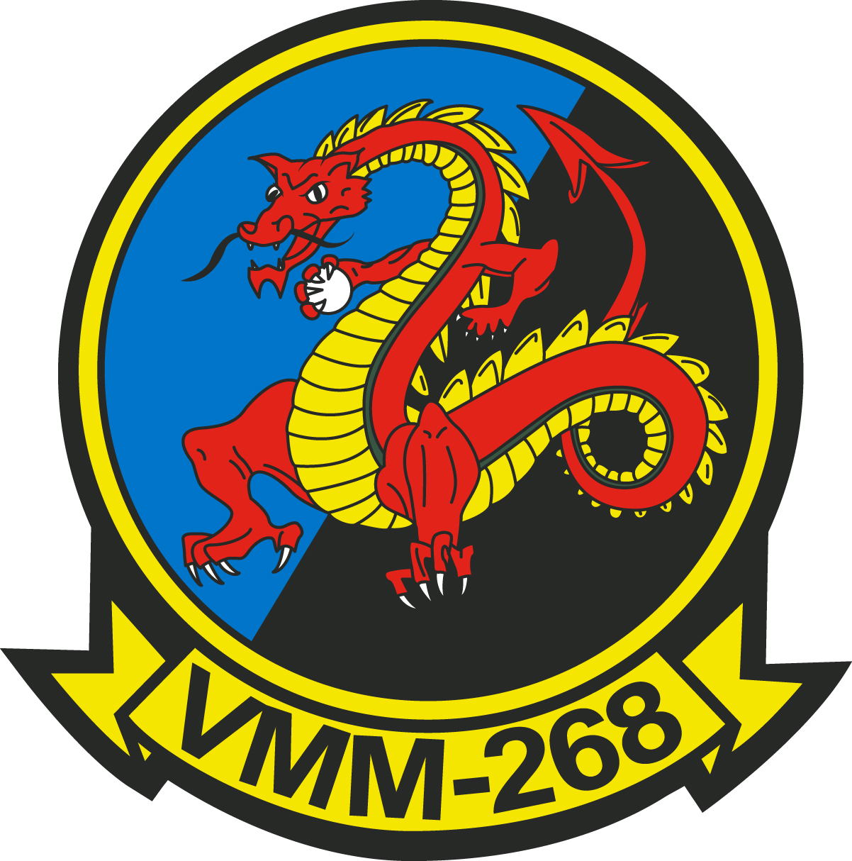 VMM-268